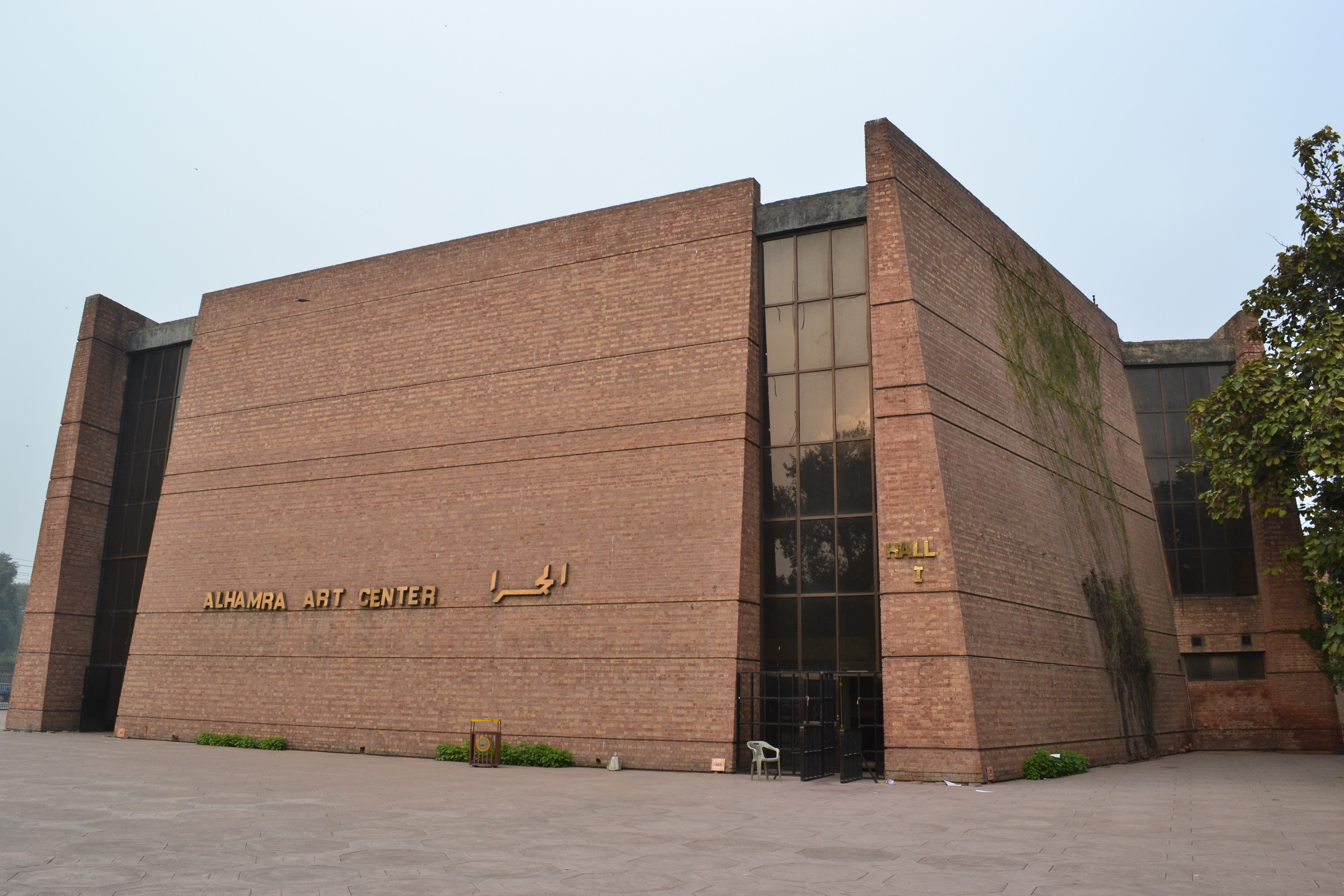 Alhamra Art Centre